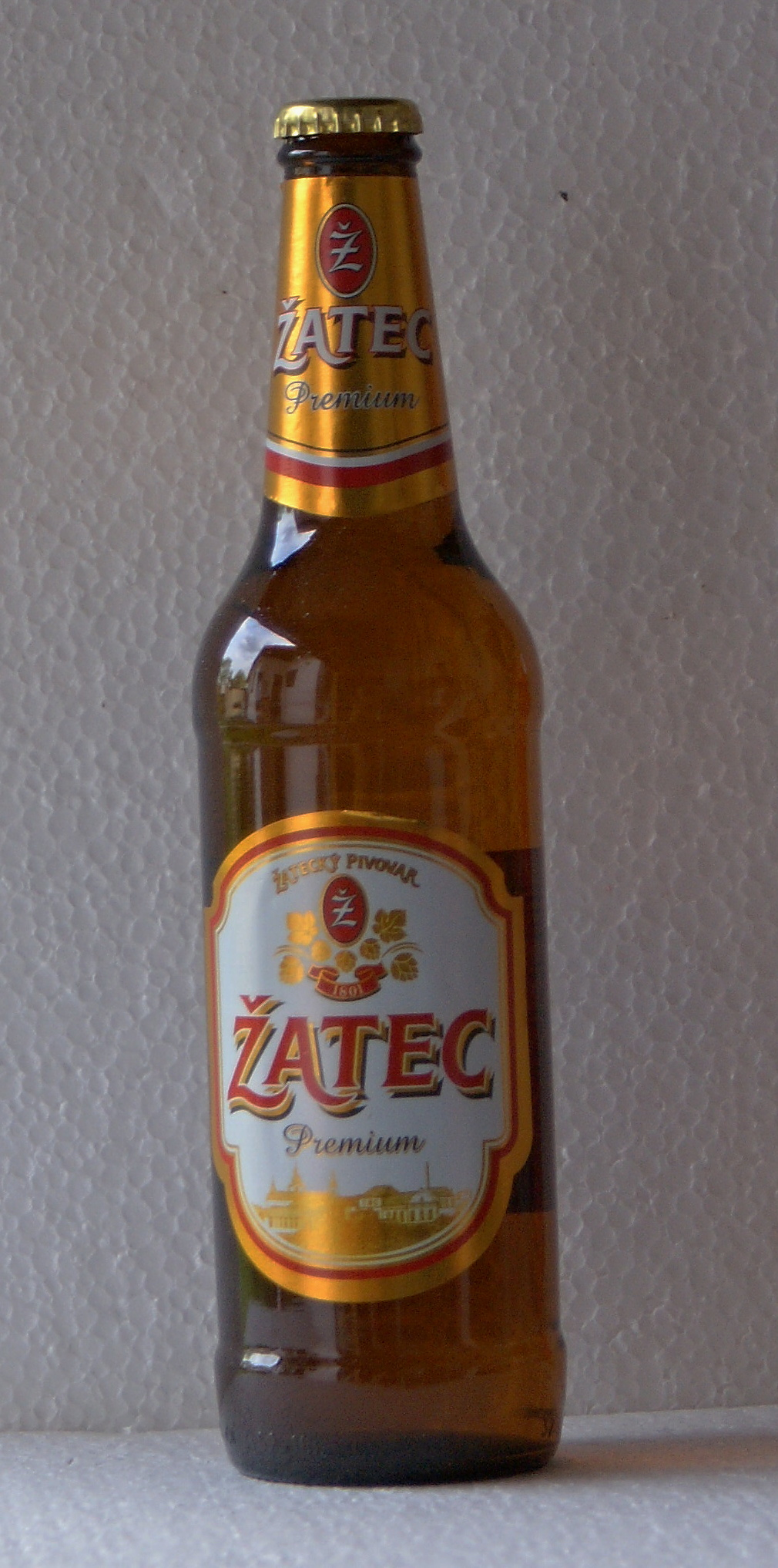 Czech light lager Žatec Premium from Žatec brewery.